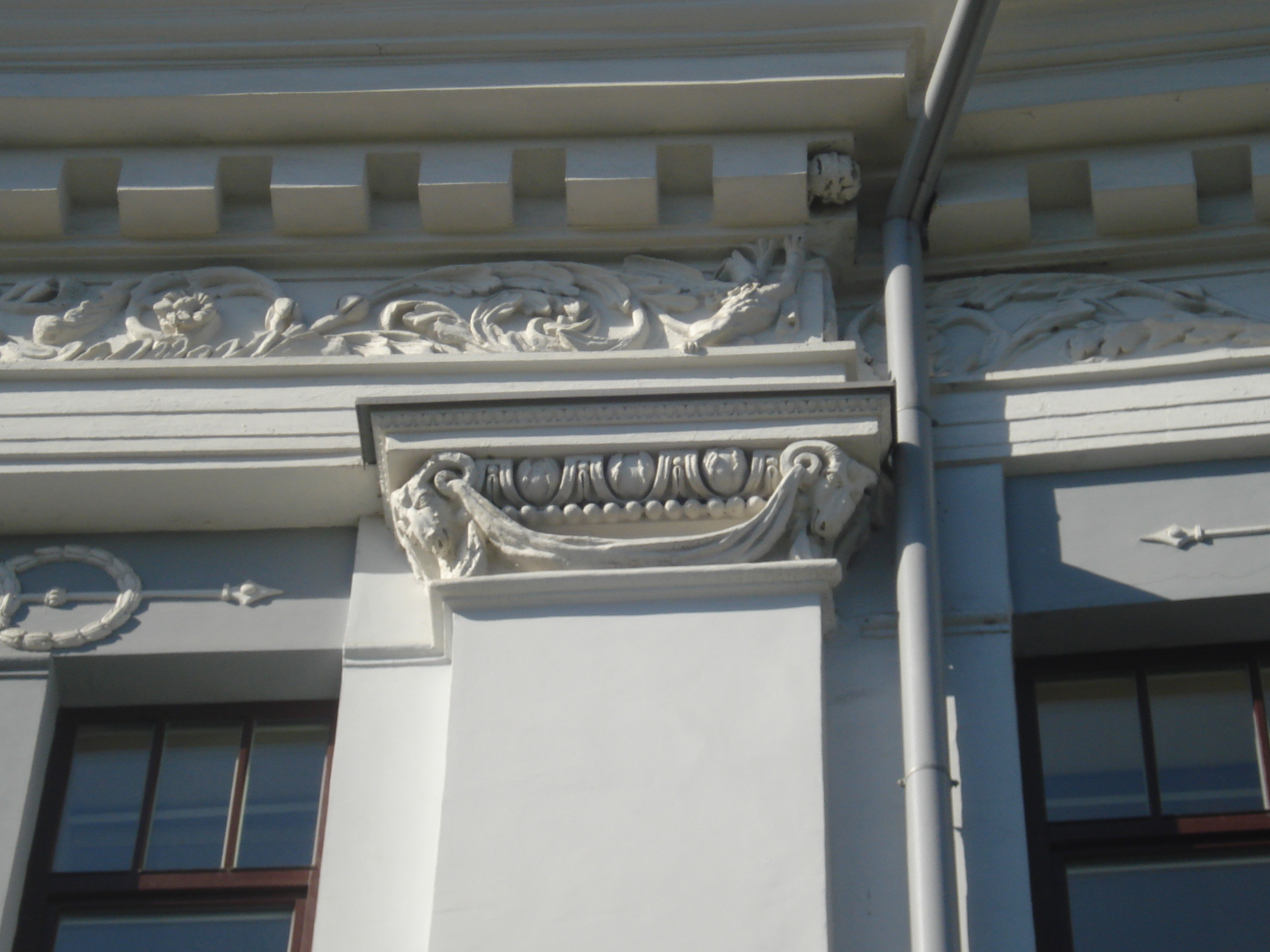 The capital of the pilaster and detail of the entablature. Vokiečių g. 10 (The Institute of International Relations and Political Science of Vilnius University. VU Tarptautinių santykių ir politikos mokslų institutas).